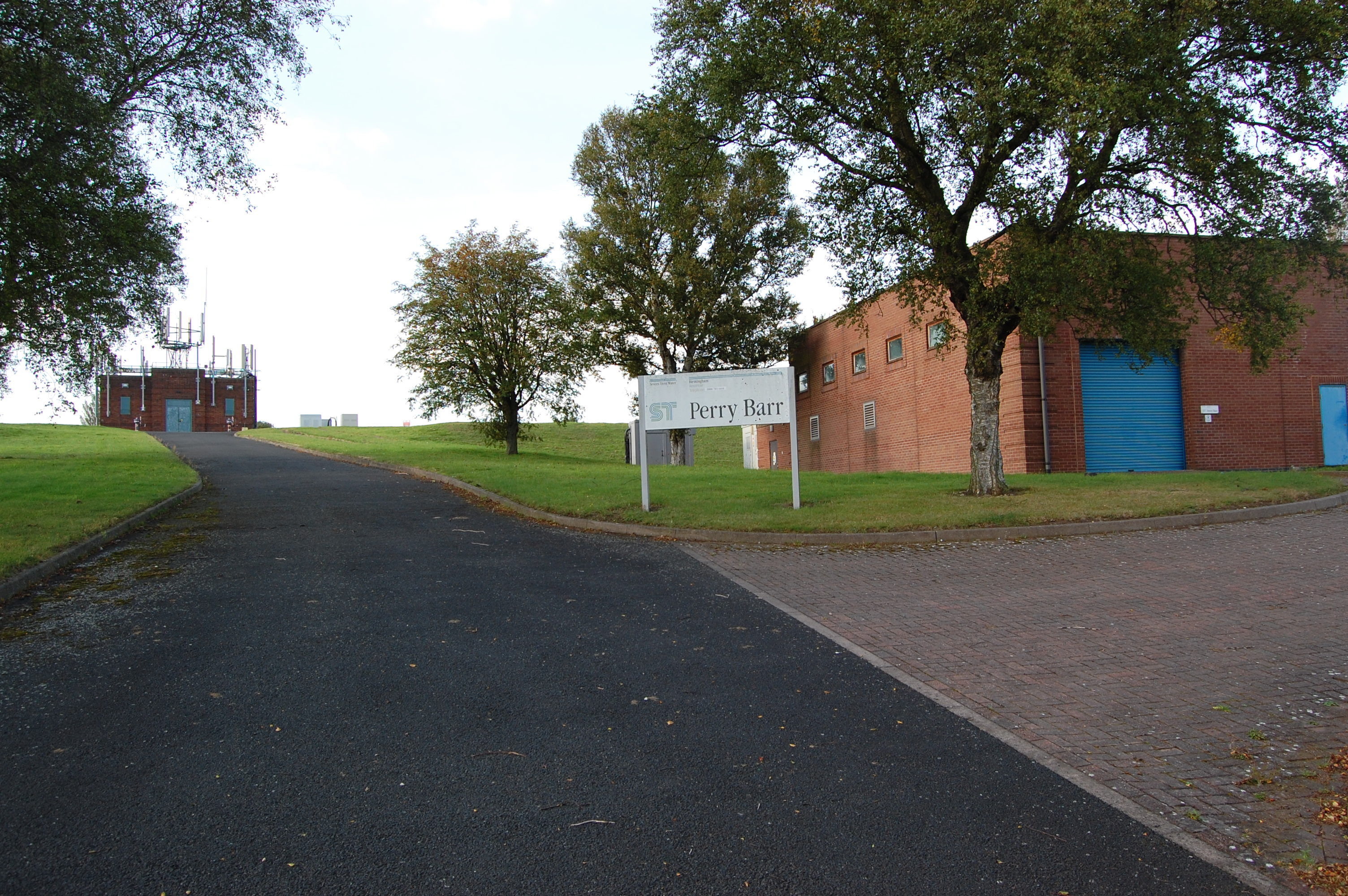 Buildings at Perry Barr Reservoir, Birmingham, England.